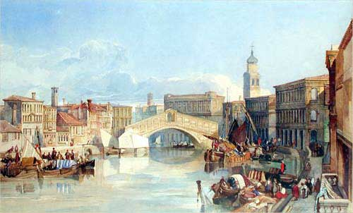 Watercolour The Rialto Bridge, Venice, signed "W. Müller 1835"